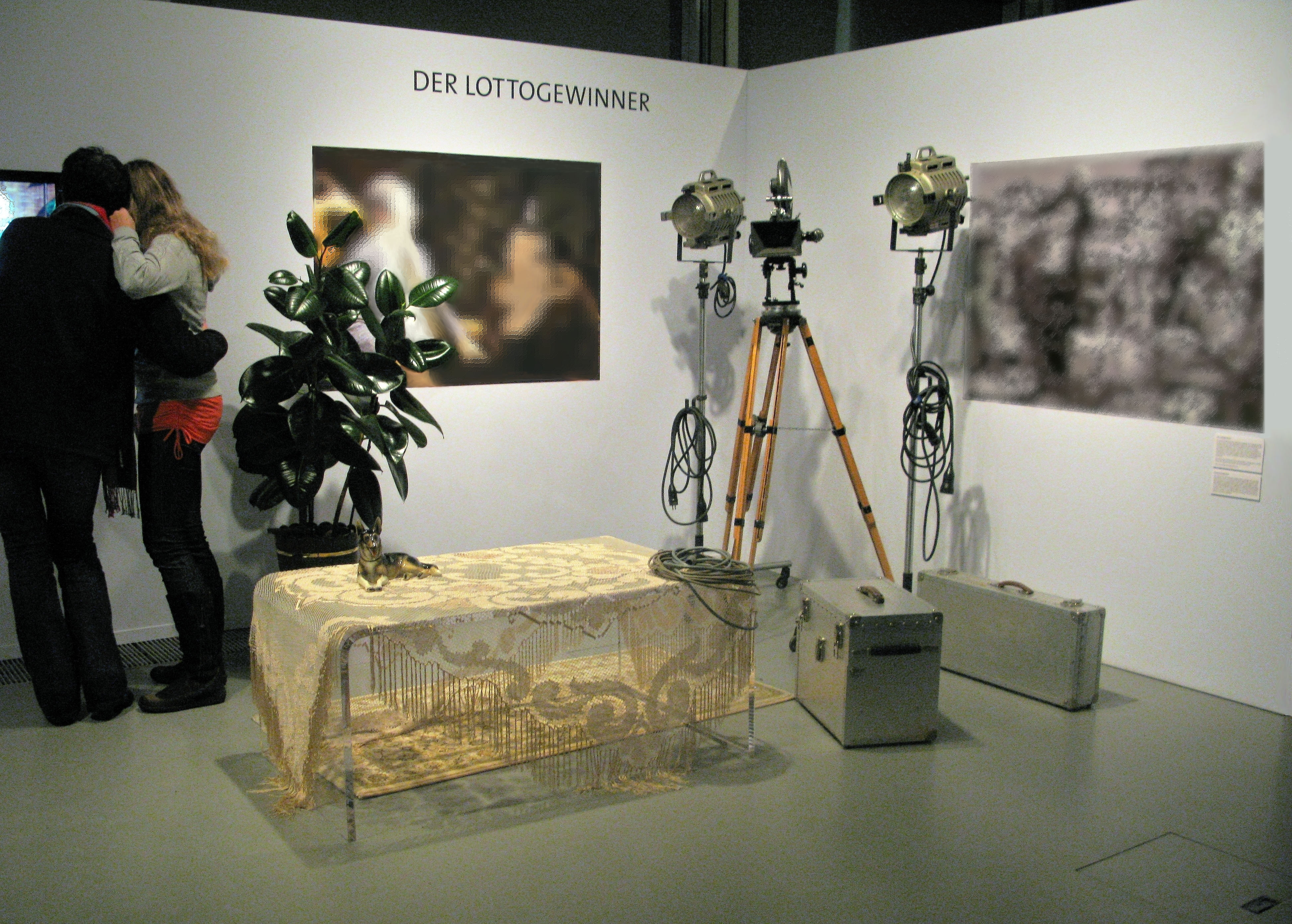 Part of the exhibition Loriot — Die Hommage (November 6, 2008 – March 29, 2009) about the German comedian Vicco von Bülow, alias "Loriot", in the Filmmuseum Berlin of the Deutsche Kinemathek – Museum für Film und Fernsehen on the occasion of his 85th birthday. Shown are some props from the tv sketch "Der Lottogewinner" (The lottery winner). The posters on the walls pictured scenes from the sketch and were garbled because of copyright reasons.